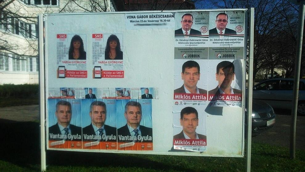 Posters of the 2014 Hungarian parliamental elections campaign in number 1 parliamentary single-member constituency (Békéscsaba) in Békés county